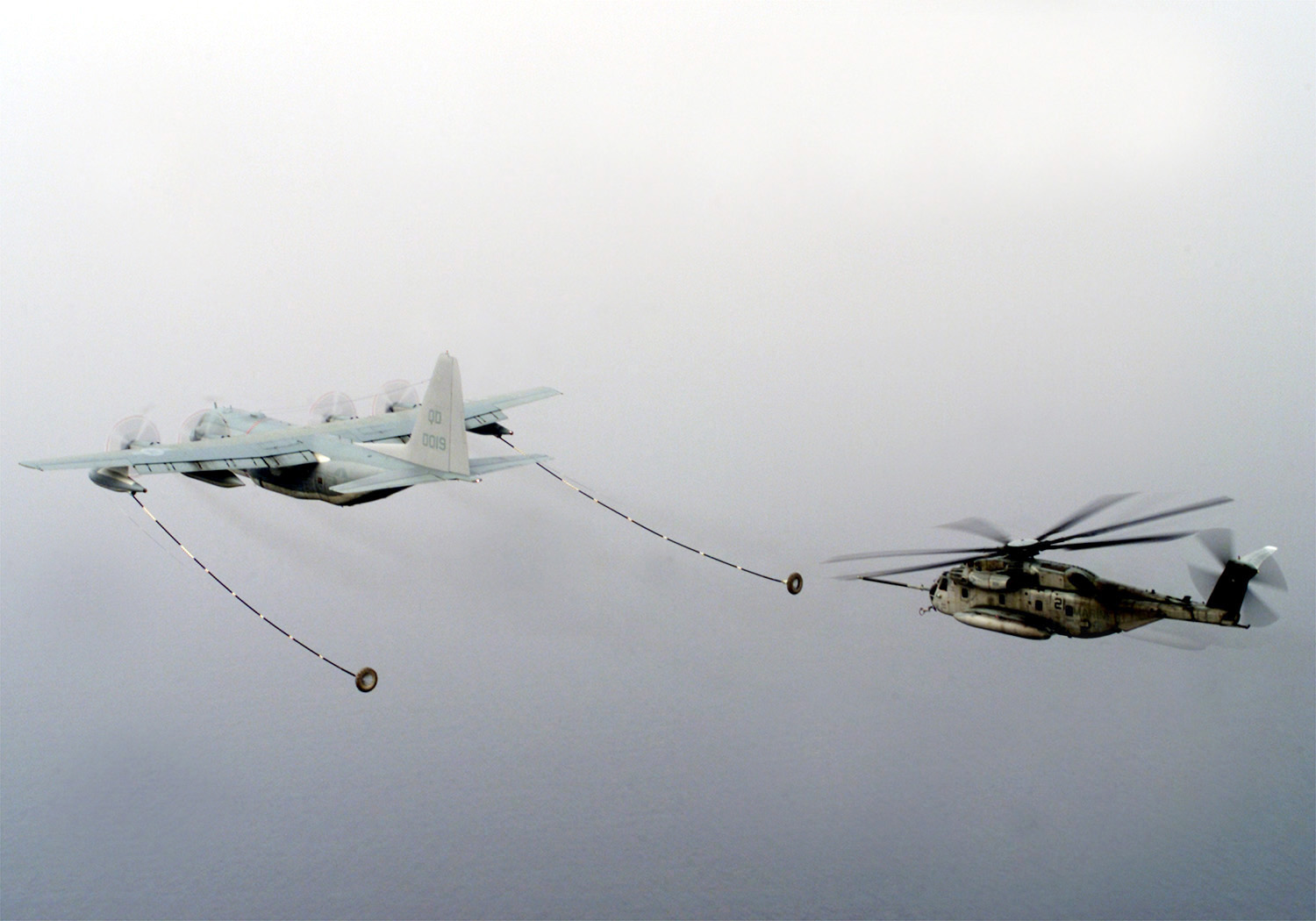 010323-N-9855D-002 Philippine Sea (Mar. 23, 2001) -- During a long-range personnel recovery training mission, a Sikorsky CH-53E Super Stallion helicopter from the 31st Marine Expeditionary Unit (31st MEU) refuels from a Lockheed KC-130R Hercules (BuNo 160019) from Marine transport refueling squadron VMGR-152. The 31st MEU was embarked aboard and operating from USS Essex (LHD-2) as part of an Amphibious Ready Group (ARG).